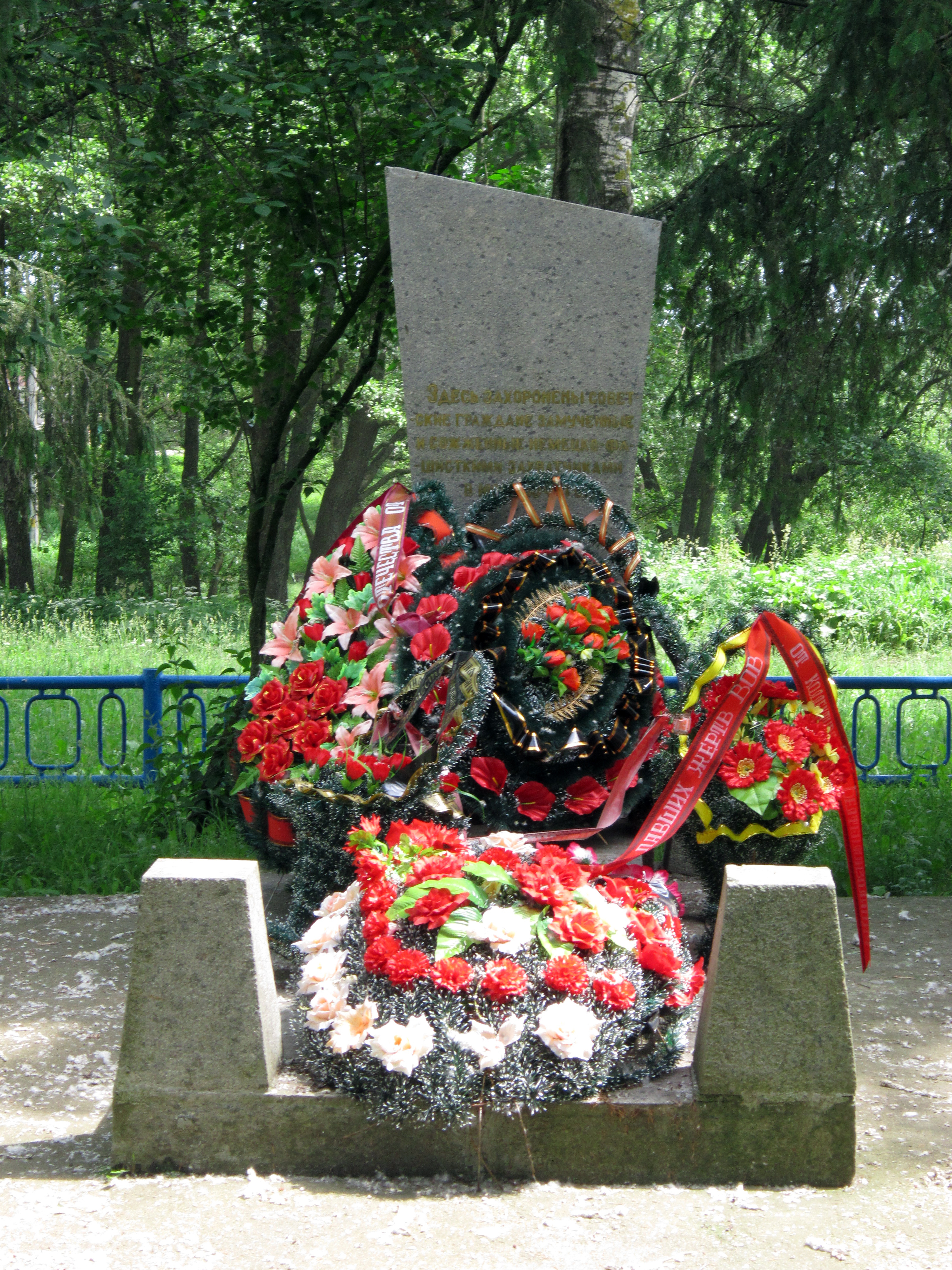 Memorial sign on a place of Maly Trastsianets extermination camp (Minsk, Belarus). Inscription: «Soviet citizens, tortured and burned by Nazi invaders in June 1944, are buried here»